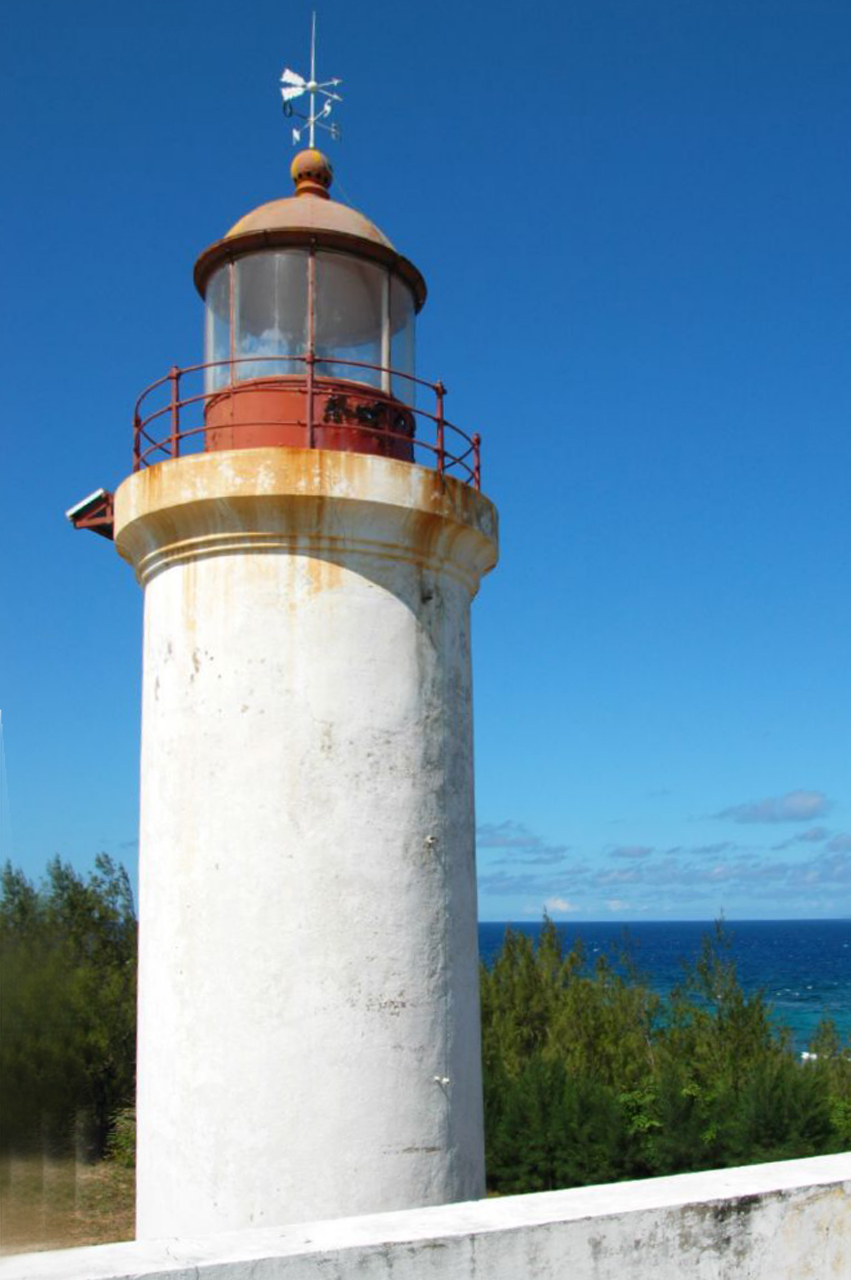 Barra Point Lighthouse, in Inhambane, Mozambique